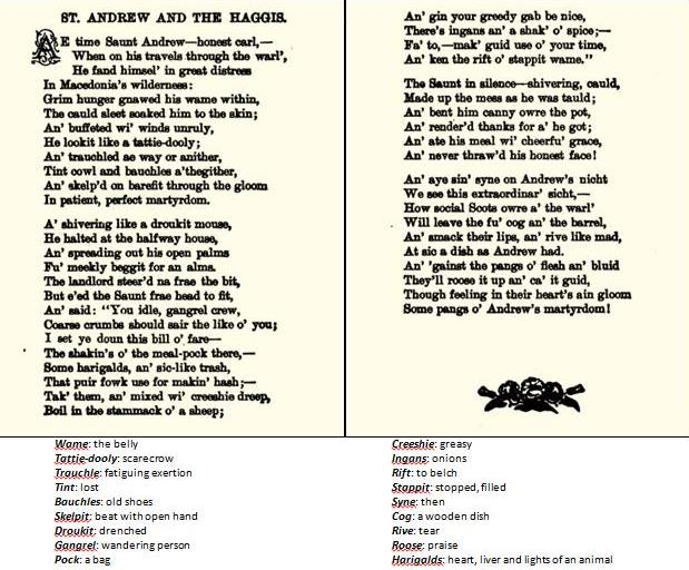 James Mackintosh Kennedy poem "St. Andrew and the Haggis" from Scottish and American Poems, 1899, pp. 55-56. James Mackintosh Kennedy